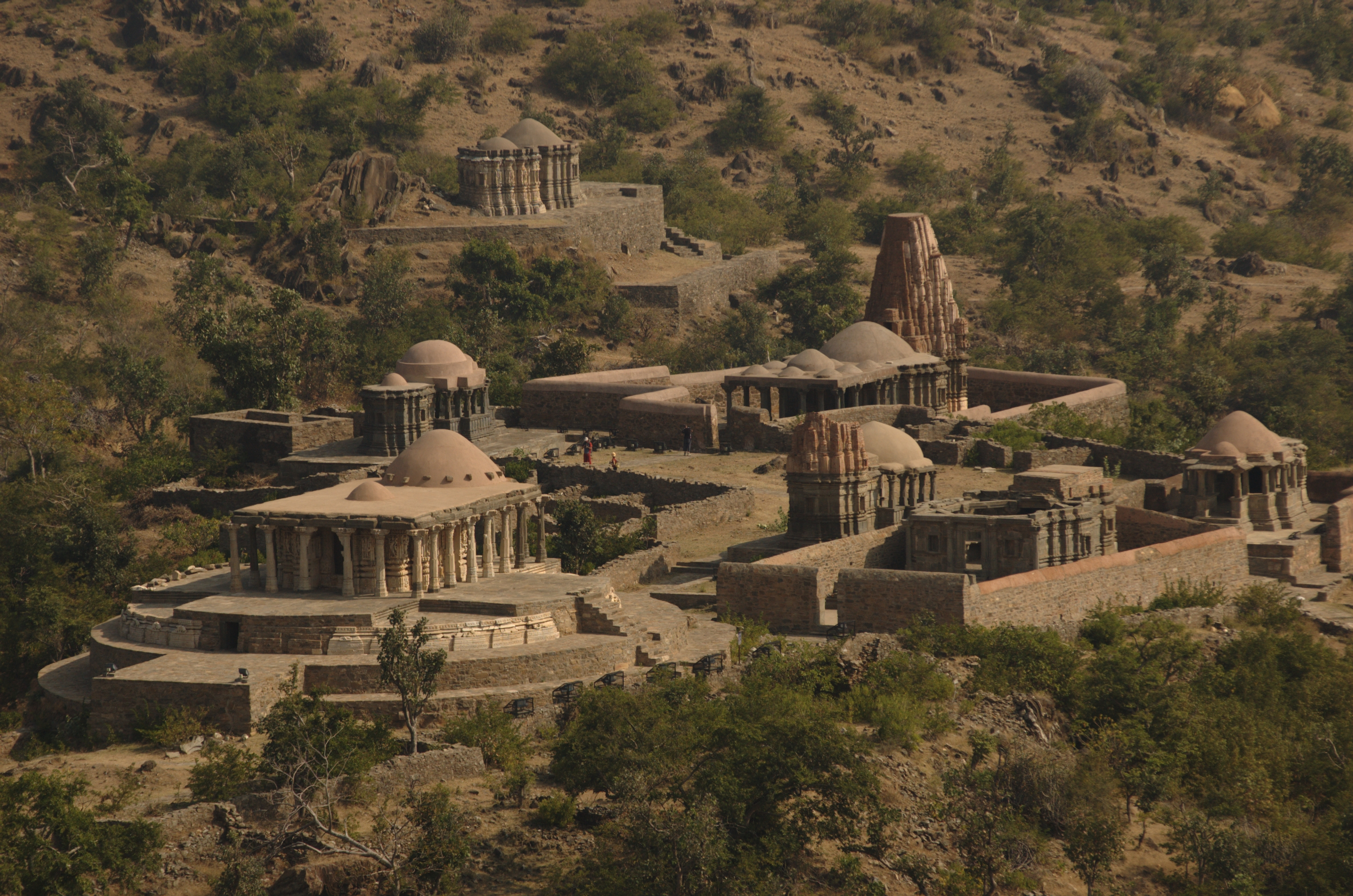 Temples in Kumbhalgarh. Česky: Chrámy uvnitř pevnosti Kumbhalgarh.